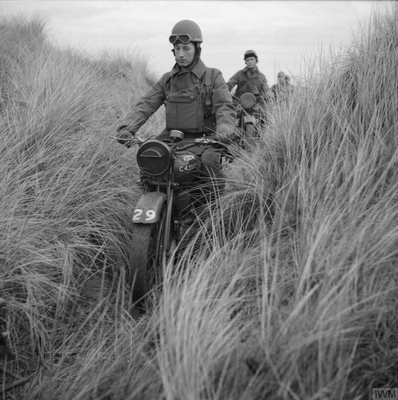 The British Army in the United Kingdom 1939-45 Motorcylists of 59th Battalion, Reconnaissance Corps at Ballykinlar in Northern Ireland, 6 December 1941.